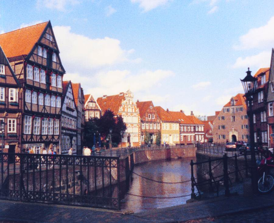 Large version, on 1987-09-26